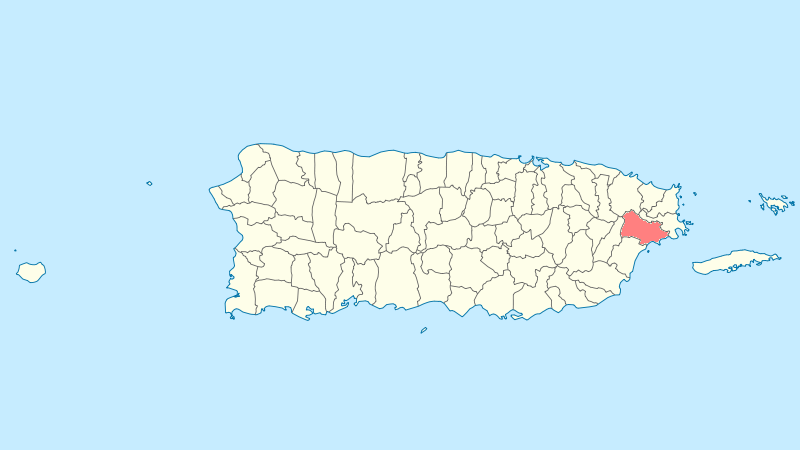 Municipal locator of Puerto Rico